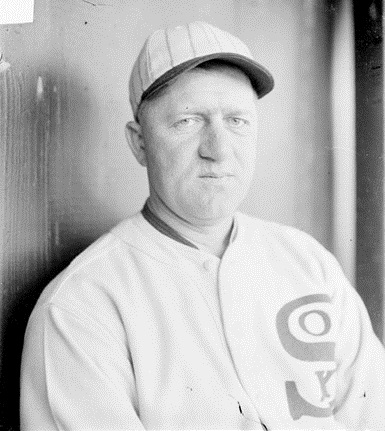 Baseball player, Red Faber, sitting in a dugout in a ballpark during spring training（1929）